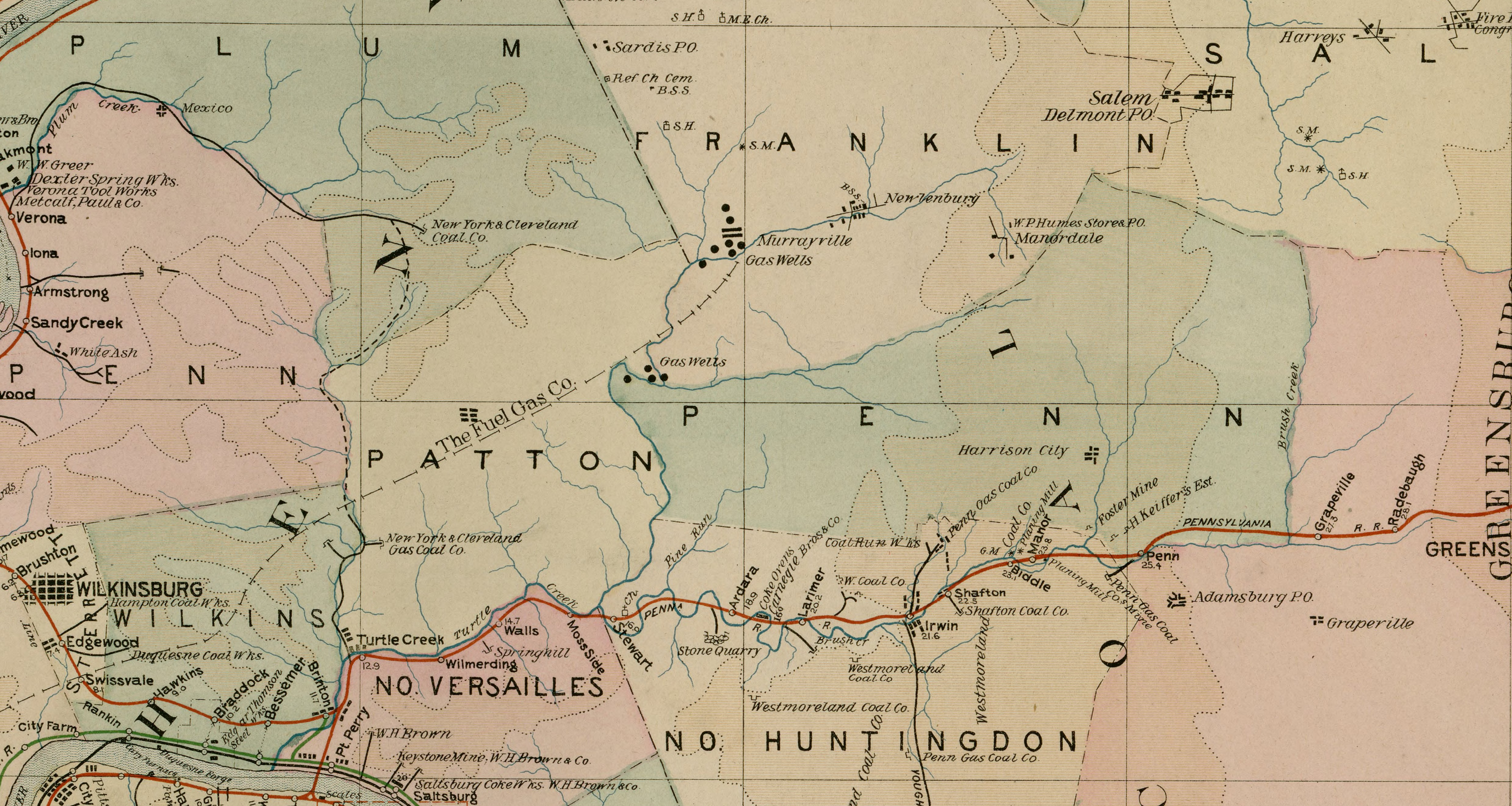 A section of Lee's Map of the Industries of Western Pennsylvania. No. 1, being an indexed map of the Connellsville coke field and Pittsburgh gas coal beds, also showing the various transportation lines traversing this field and centering at Pittsburgh, PA